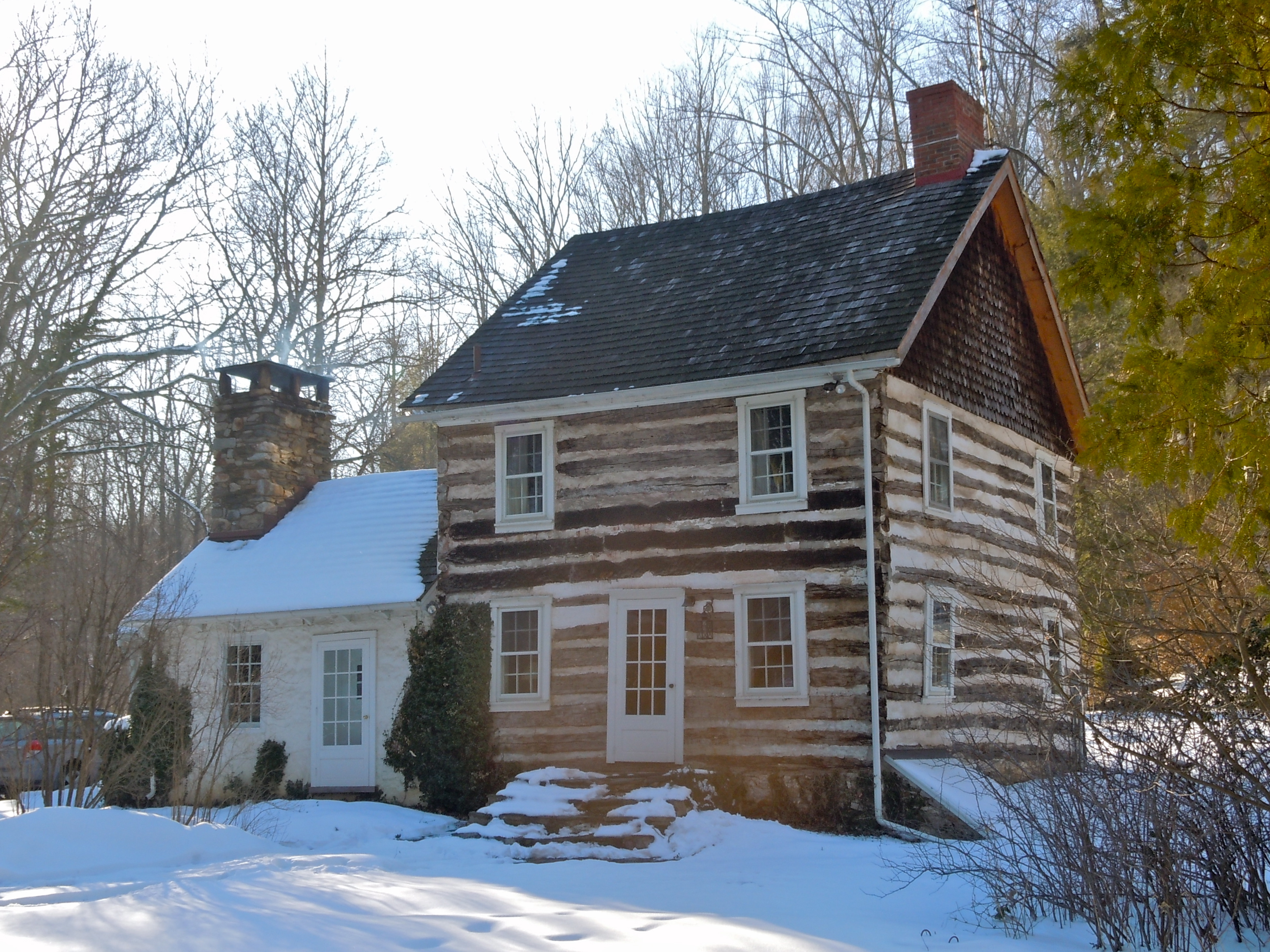 Log Cabin in Green Valley Historic District on the NRHP since September 16, 1985. On Green Valley Road. The HD is in both East Marlborough and Newlin Townships, Chester County, Pennsylvania.